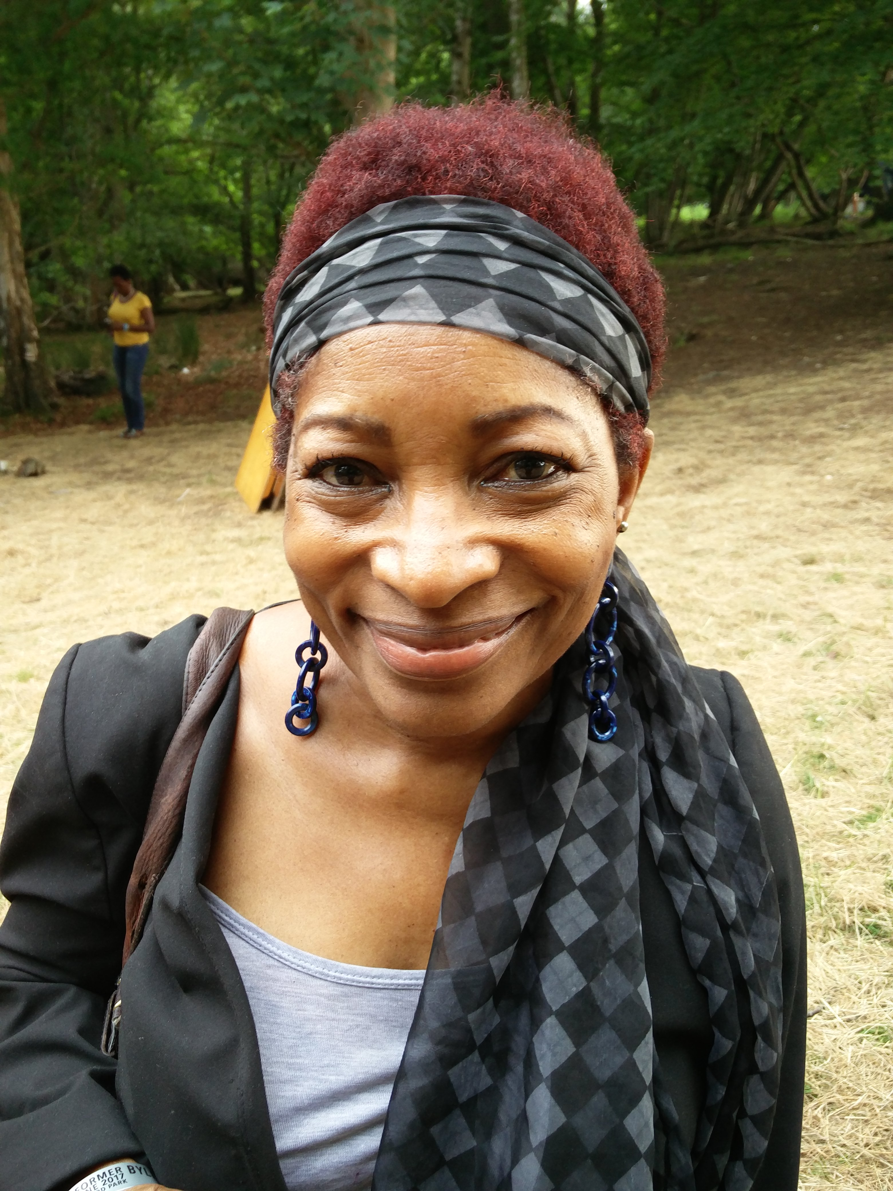 Bonnie Greer at Byline Festival 2017